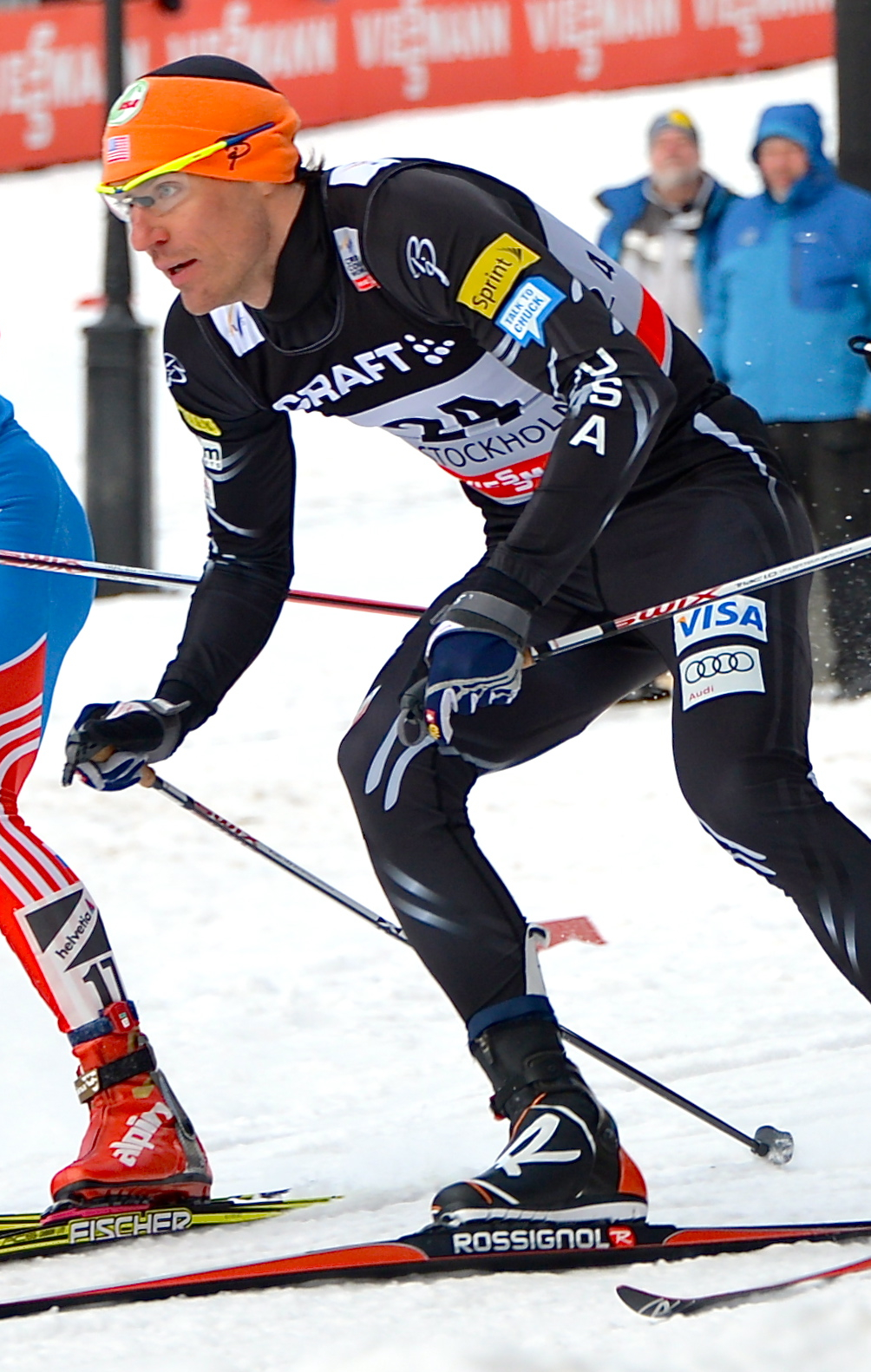 Maxim Vylegzhanin (17), Teodor Peterson (4), Torin Koos (24) at Royal Palace Sprint in Stockholm March 20, 2013